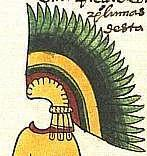 The quetzalpatzactli, part of an Aztec warrior's costume.